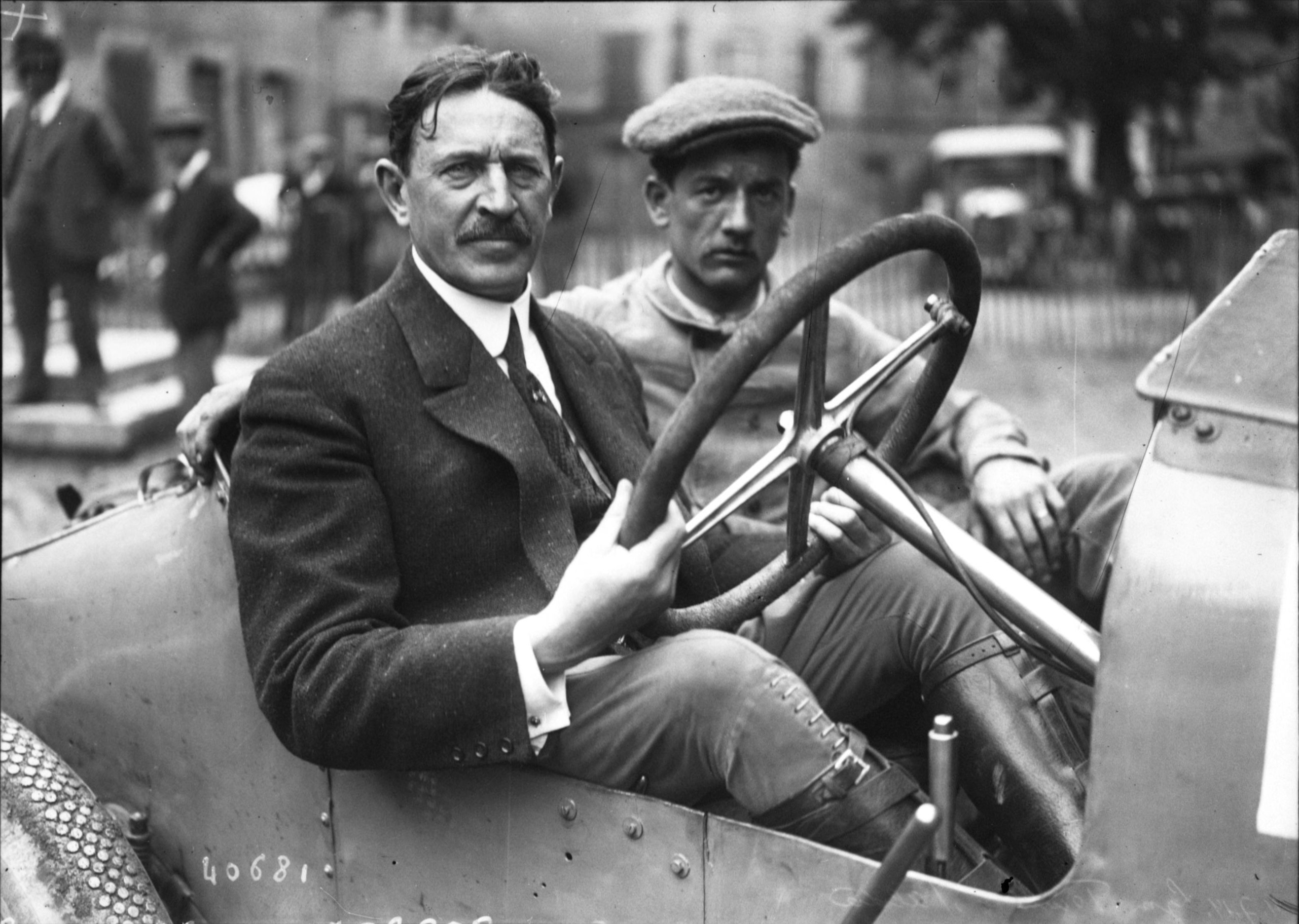 Henri Fournier at the 1914 French Grand Prix